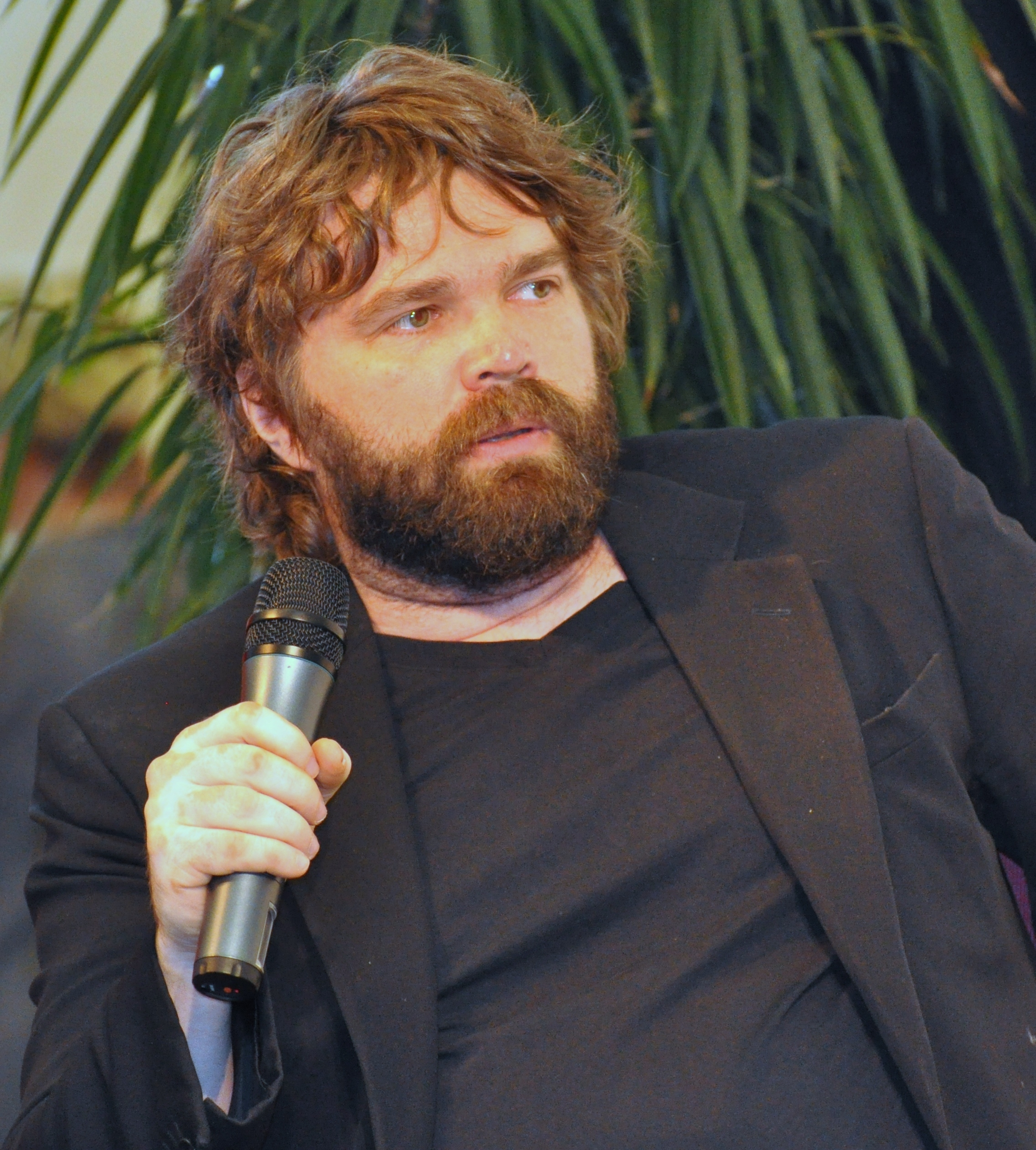 Finnish actor Mikko Kouki at the Turku Fair, 2011.